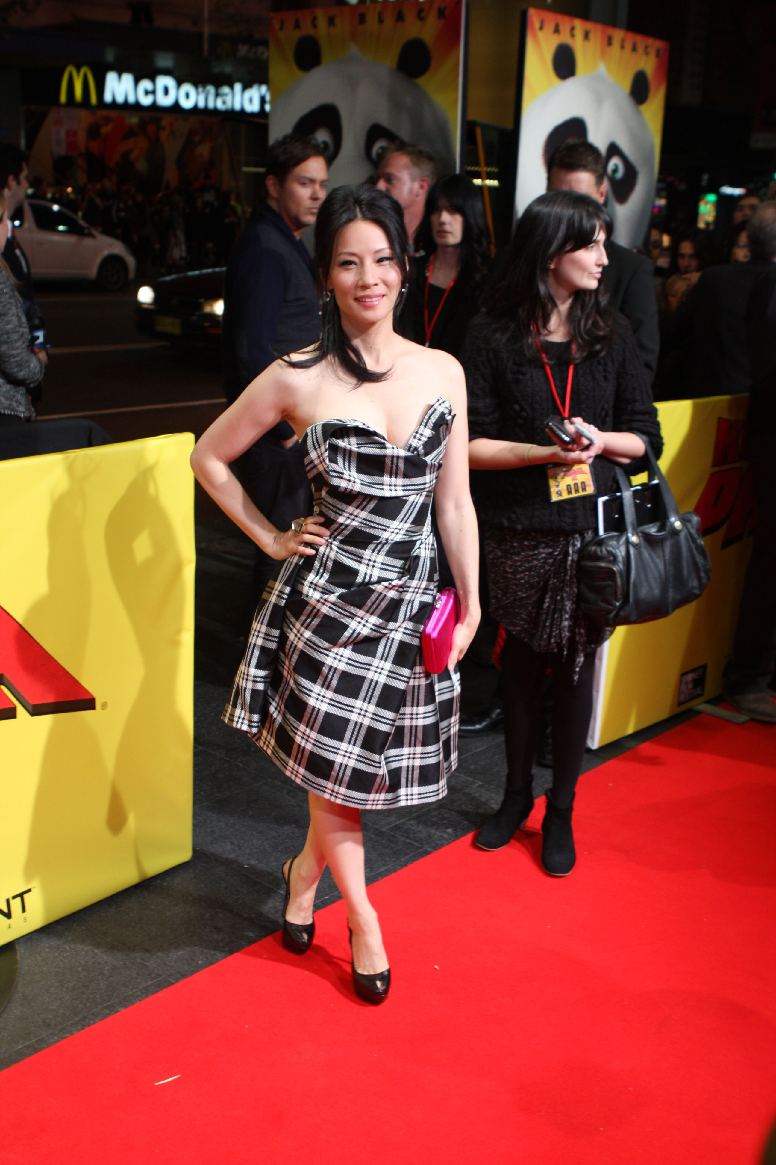 Kung Fu Panda Red Carpet Premiere Lucy Liu